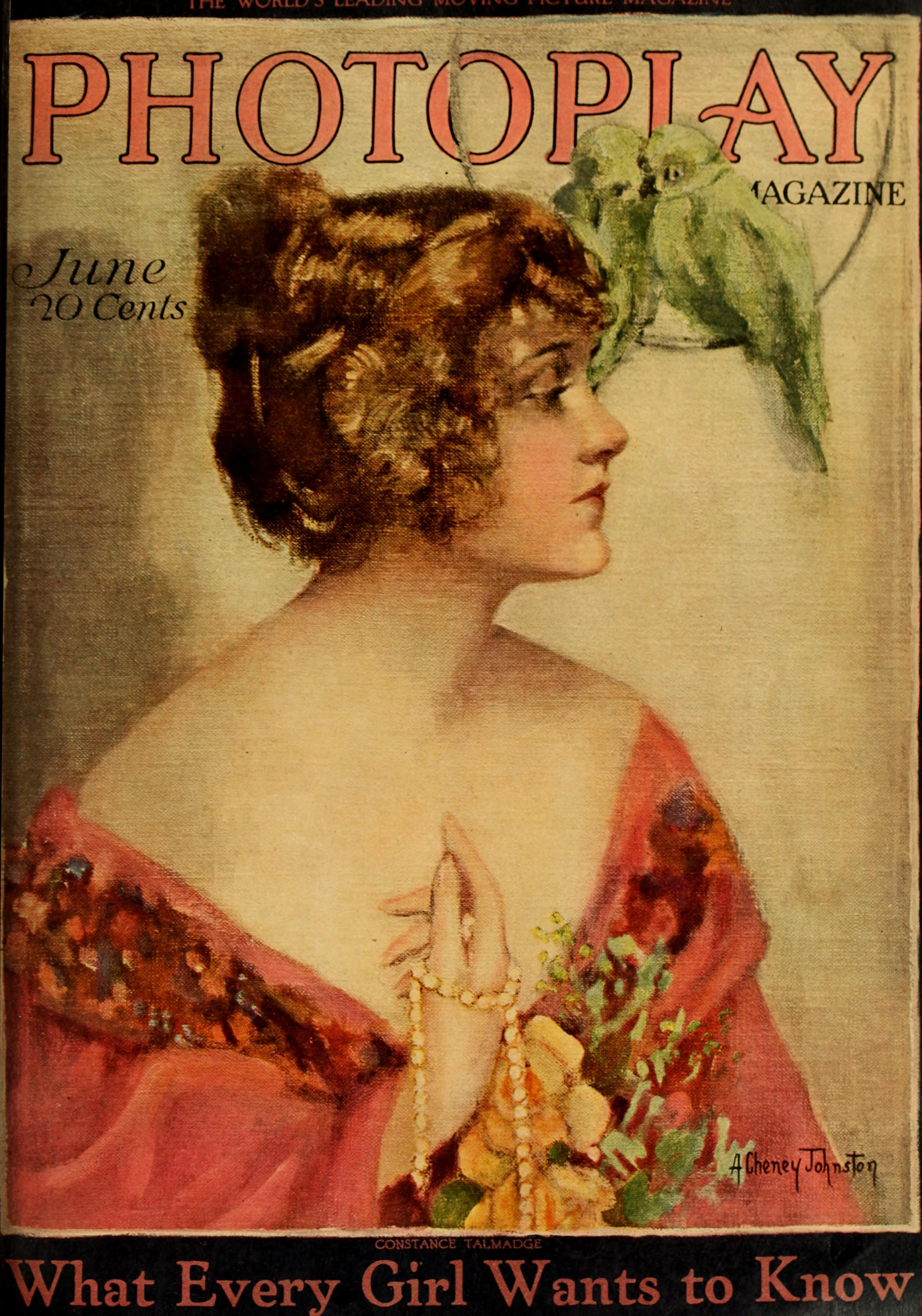 Constance Alice Talmadge (April 19, 1898 – November 23, 1973) was an American silent movie star born in Brooklyn, New York.